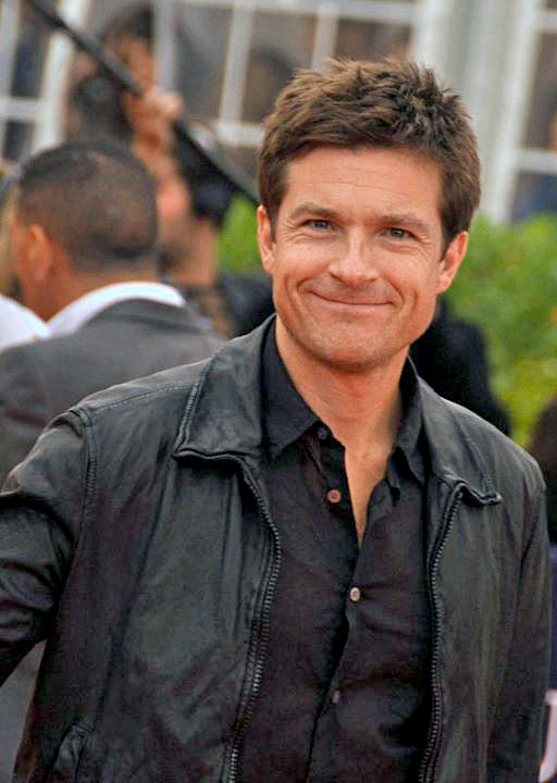 Jason Bateman at the Deauville film festival